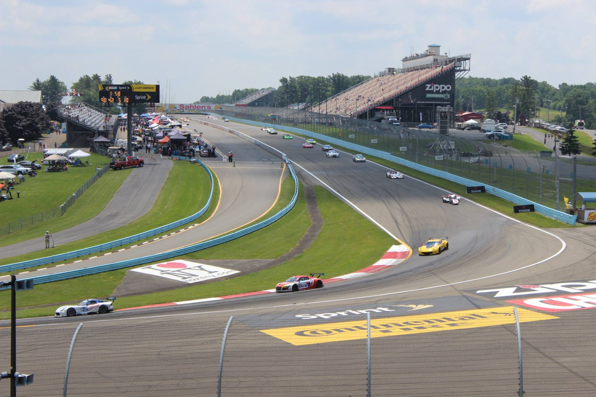 2014 Sahlen's Six Hours of The Glen